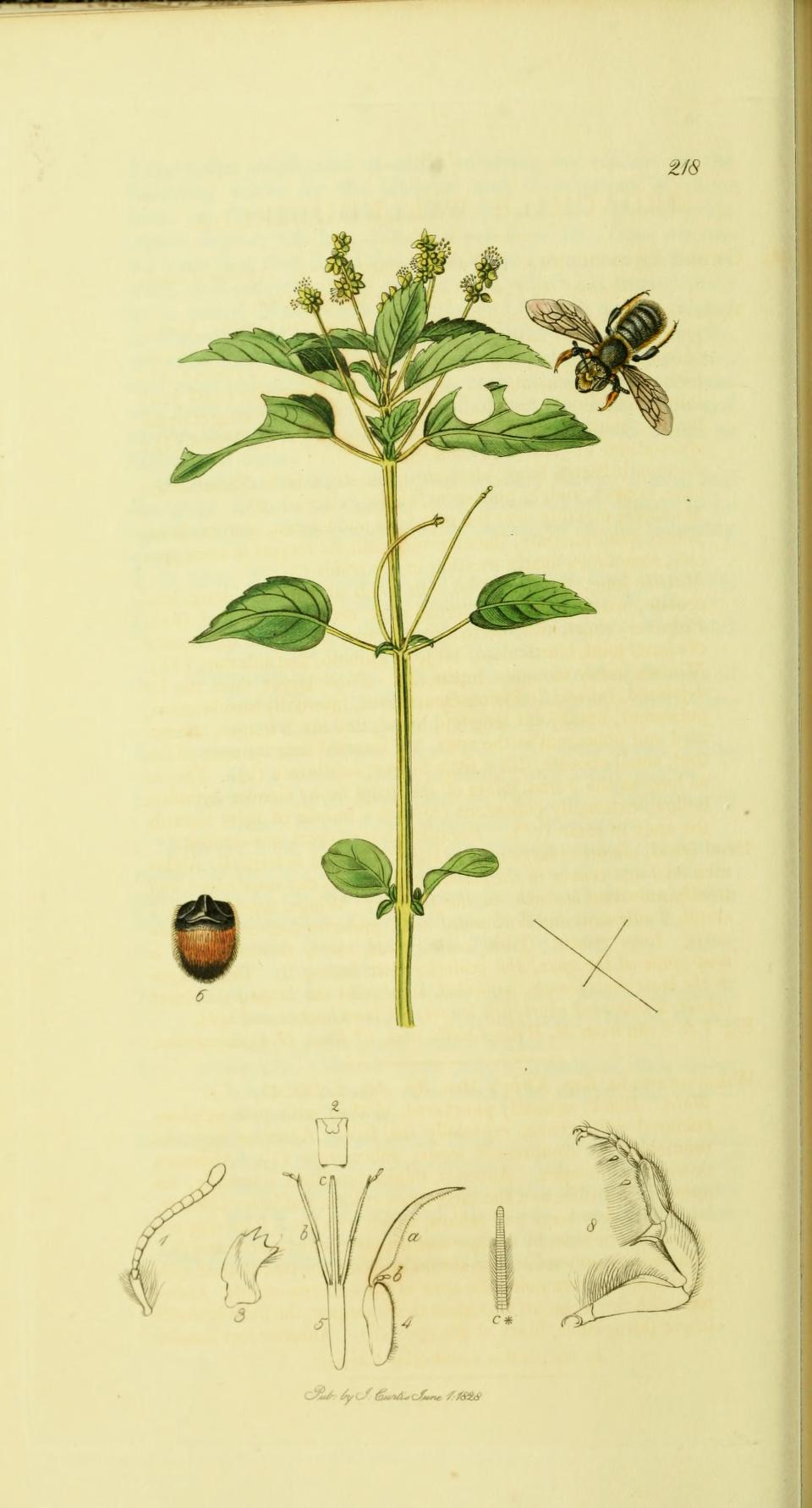 An illustration from British Entomology by John Curtis.218. Megachile willughbiella (Willughby’s Leaf-cutter Bee)